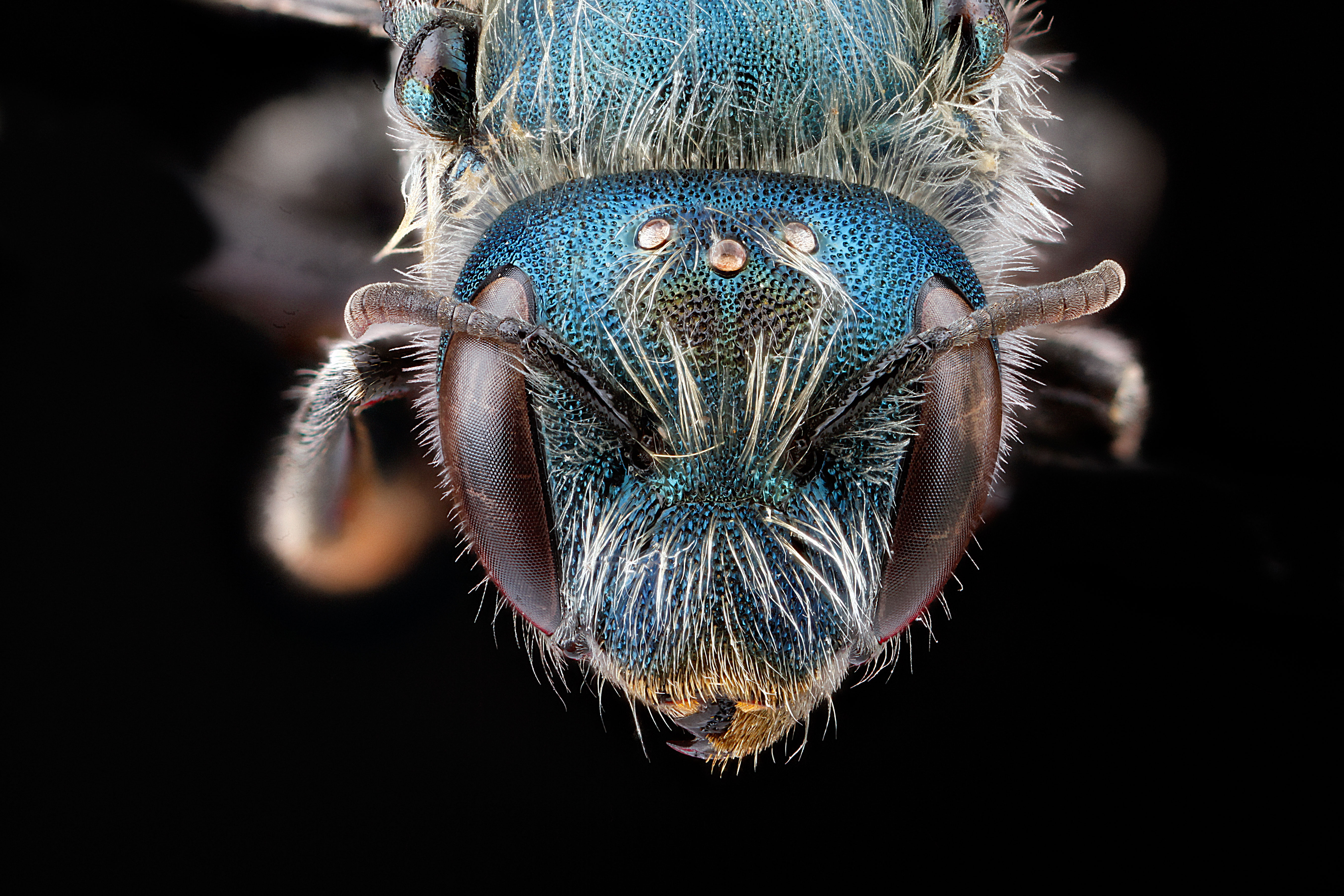 Osmia distincta, Allegany County, Maryland, May 2012